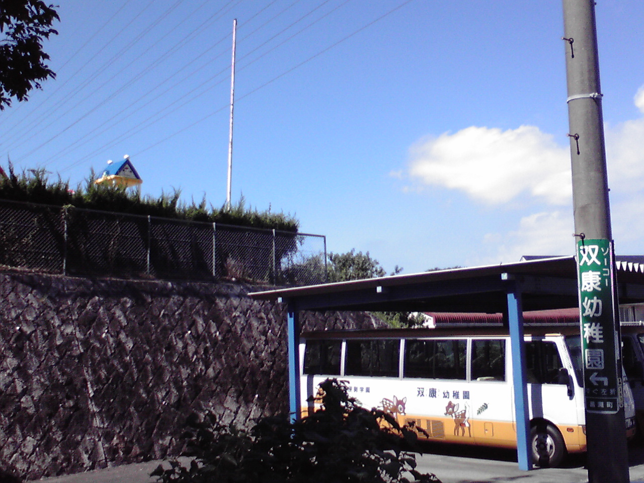 This is the Soko Kindergarten, which is located in Ise, Mie, Japan.